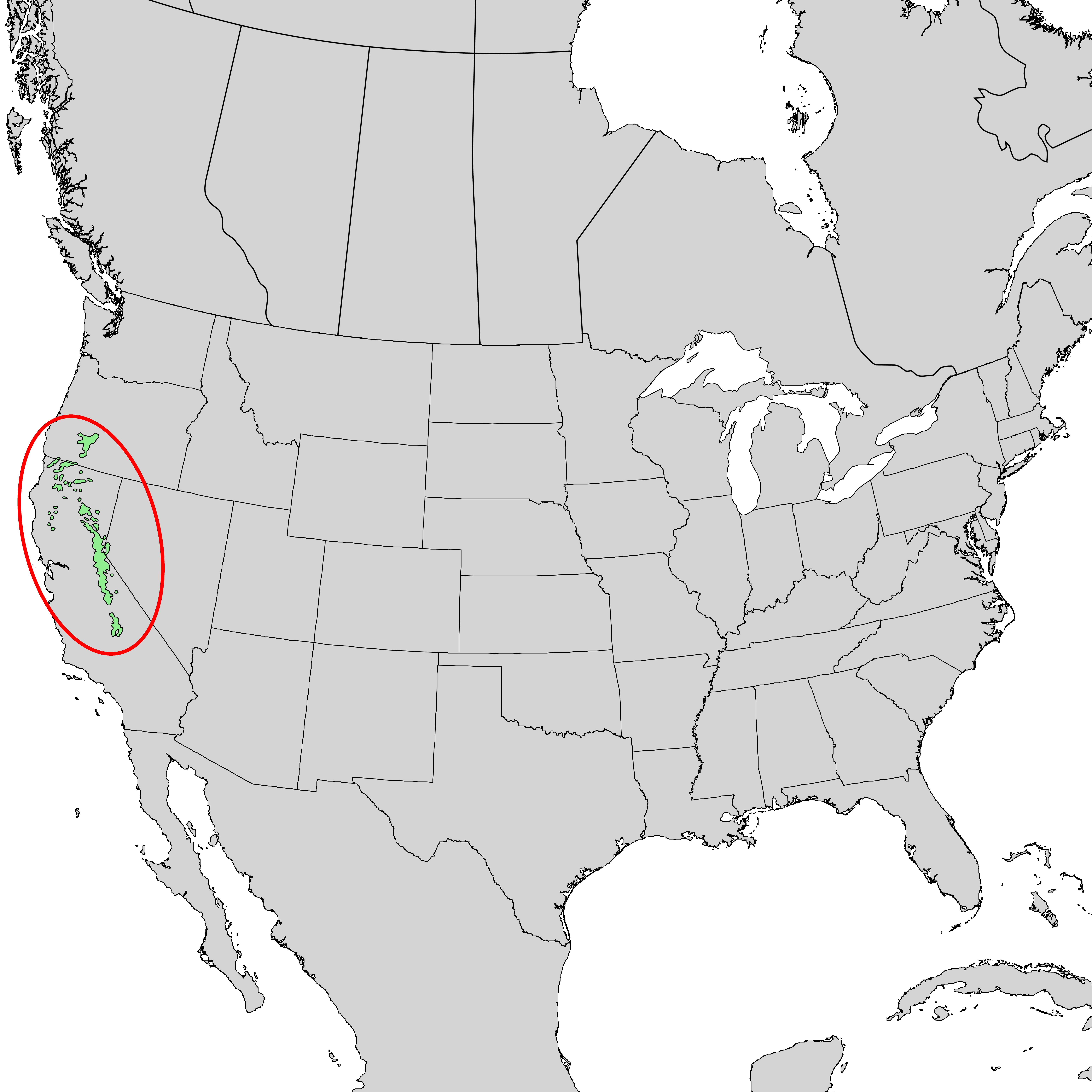 Natural distribution map for Abies magnifica - California red fir